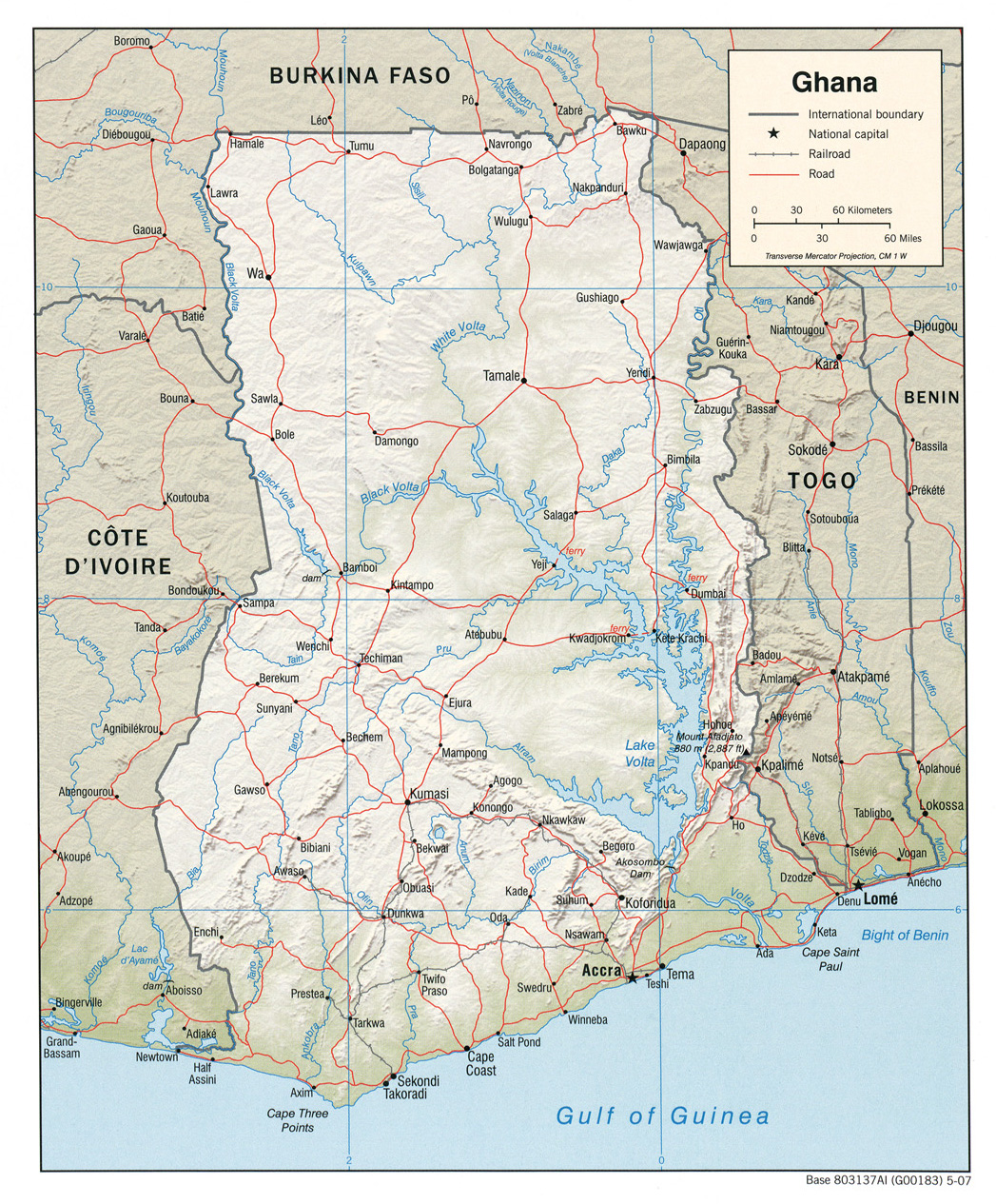 CIA shaded relief map of Ghana, 2007.